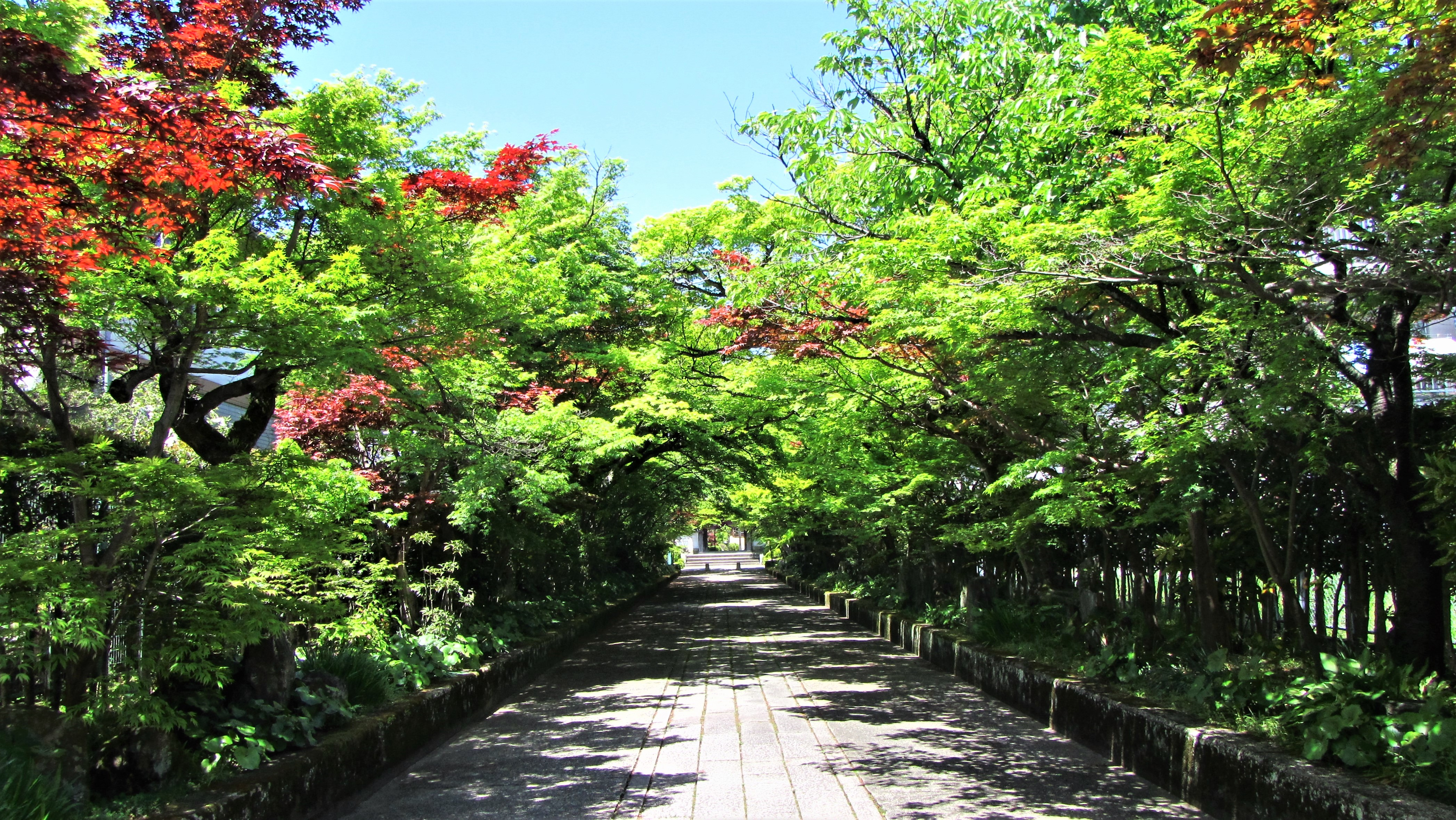 "Maple corridor" leading to Ryufukuji temple, Yamaguchi.